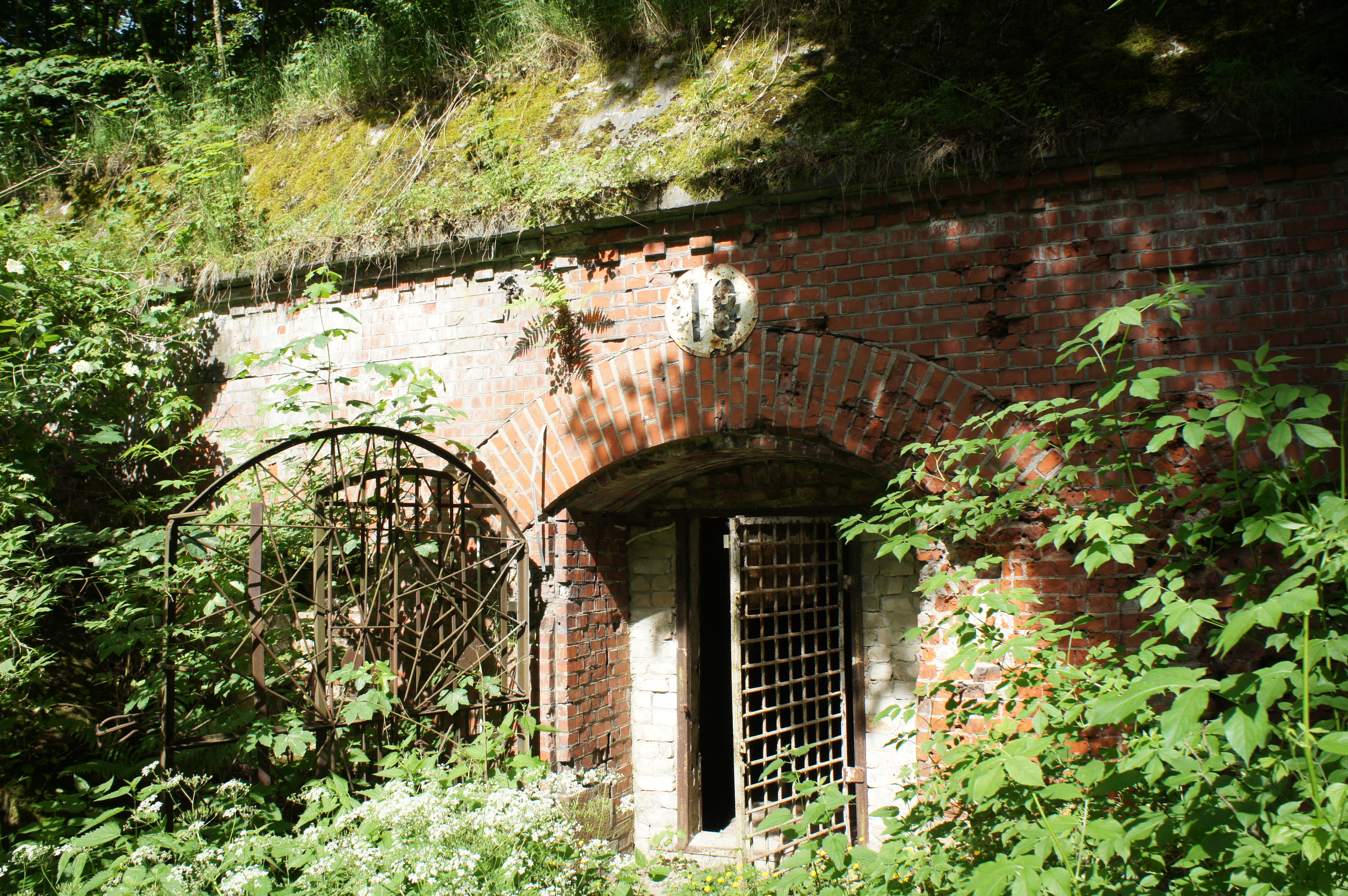 Fort 1a (Groeben) in Kaliningrad